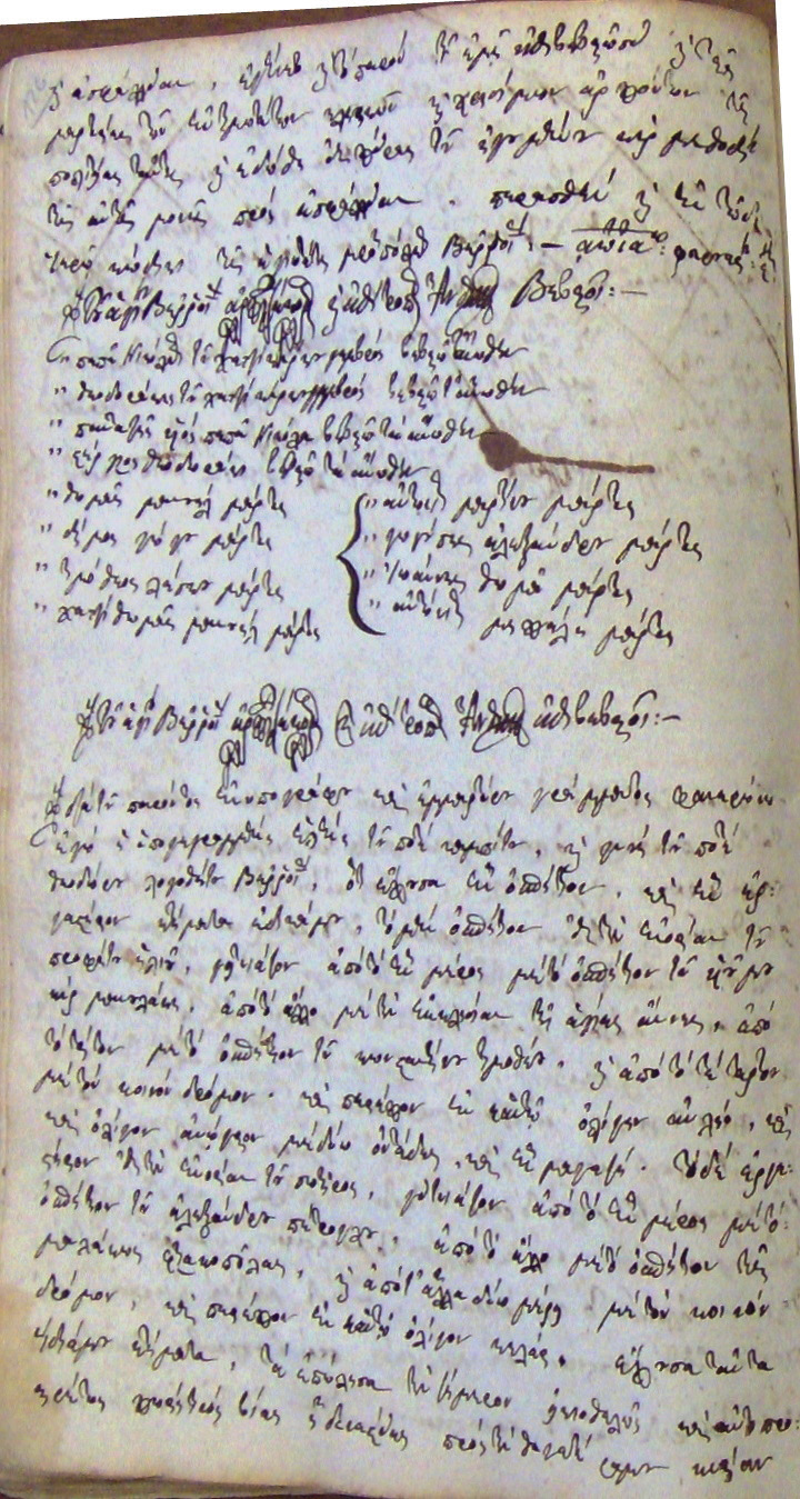 Veria Codex Haci Kyrkos Will 1811